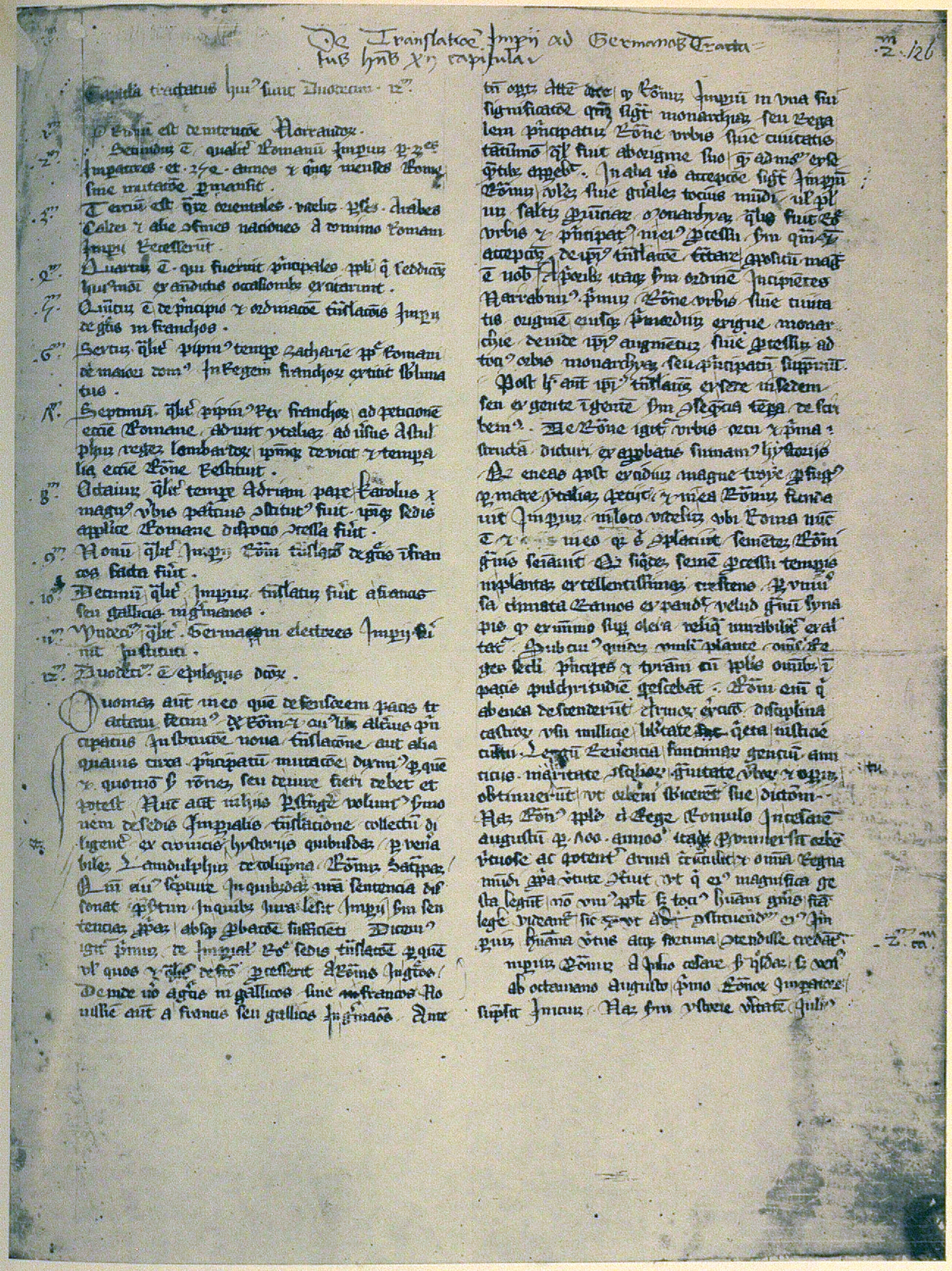 The beginning of the treatise De translatione imperii in the manuscript Munich, Bayerische Staatsbibliothek, Clm 18100, fol. 126r.